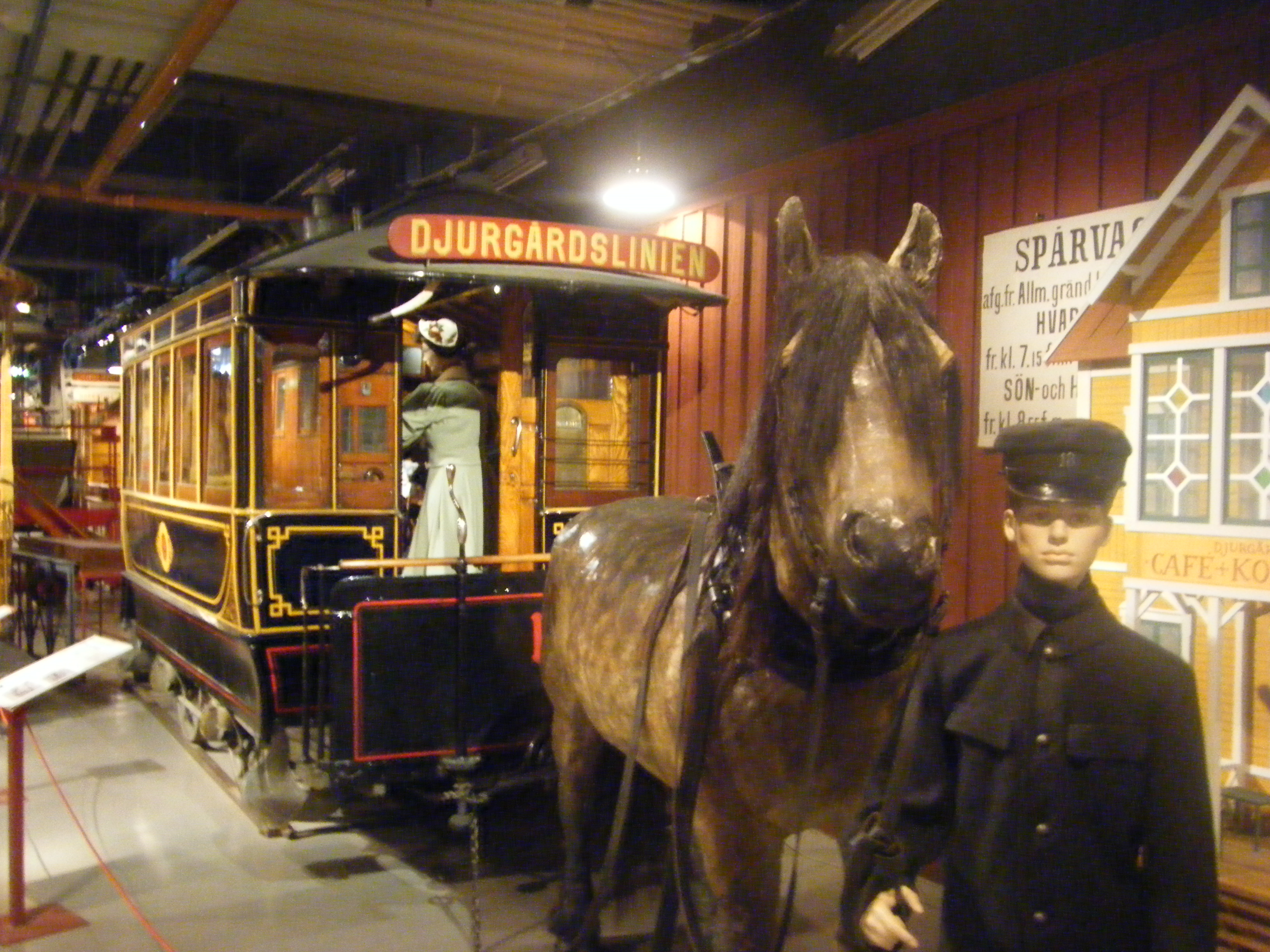 Spårvägsmuseet in Stockholm